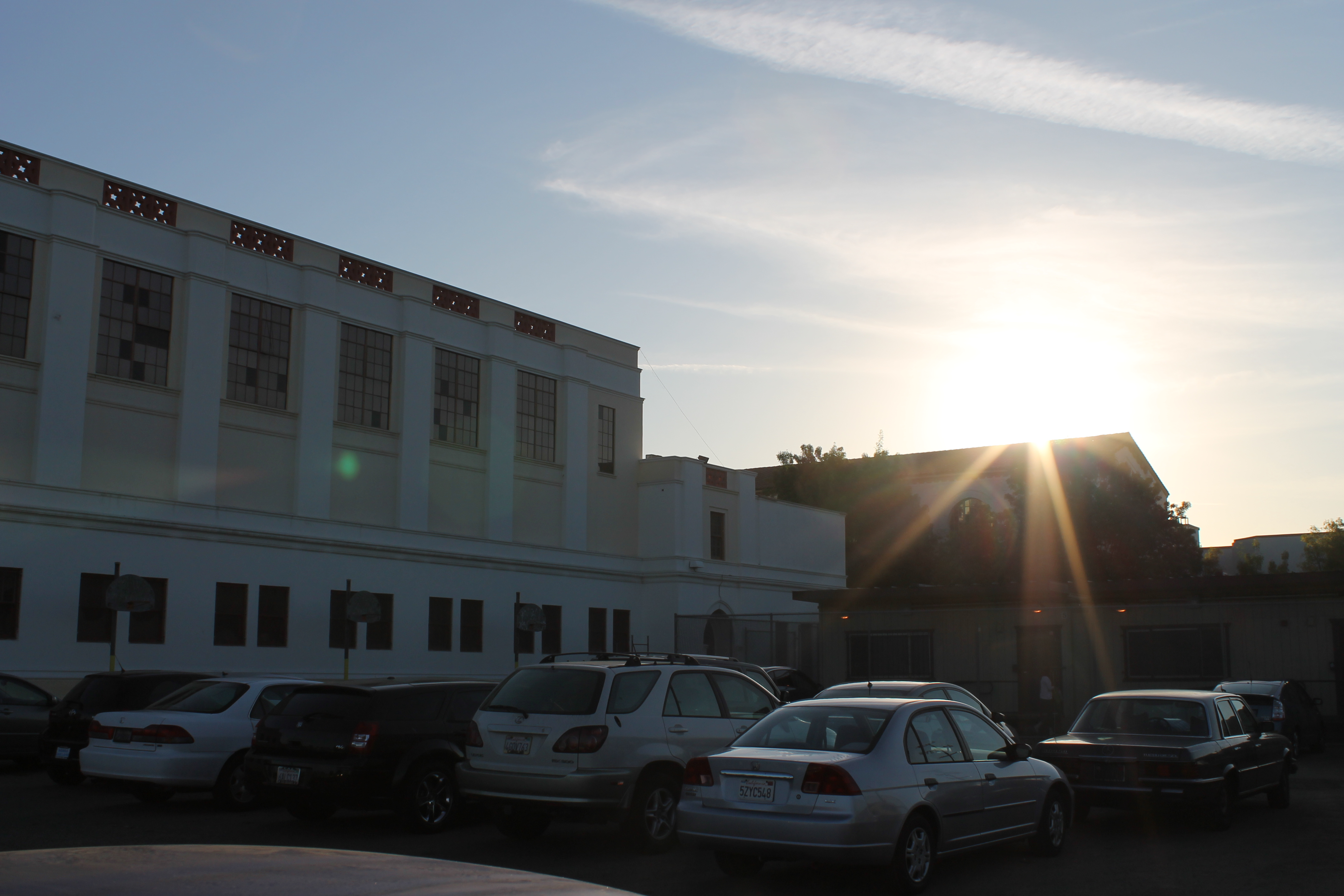 Fremont Federation of High Schools